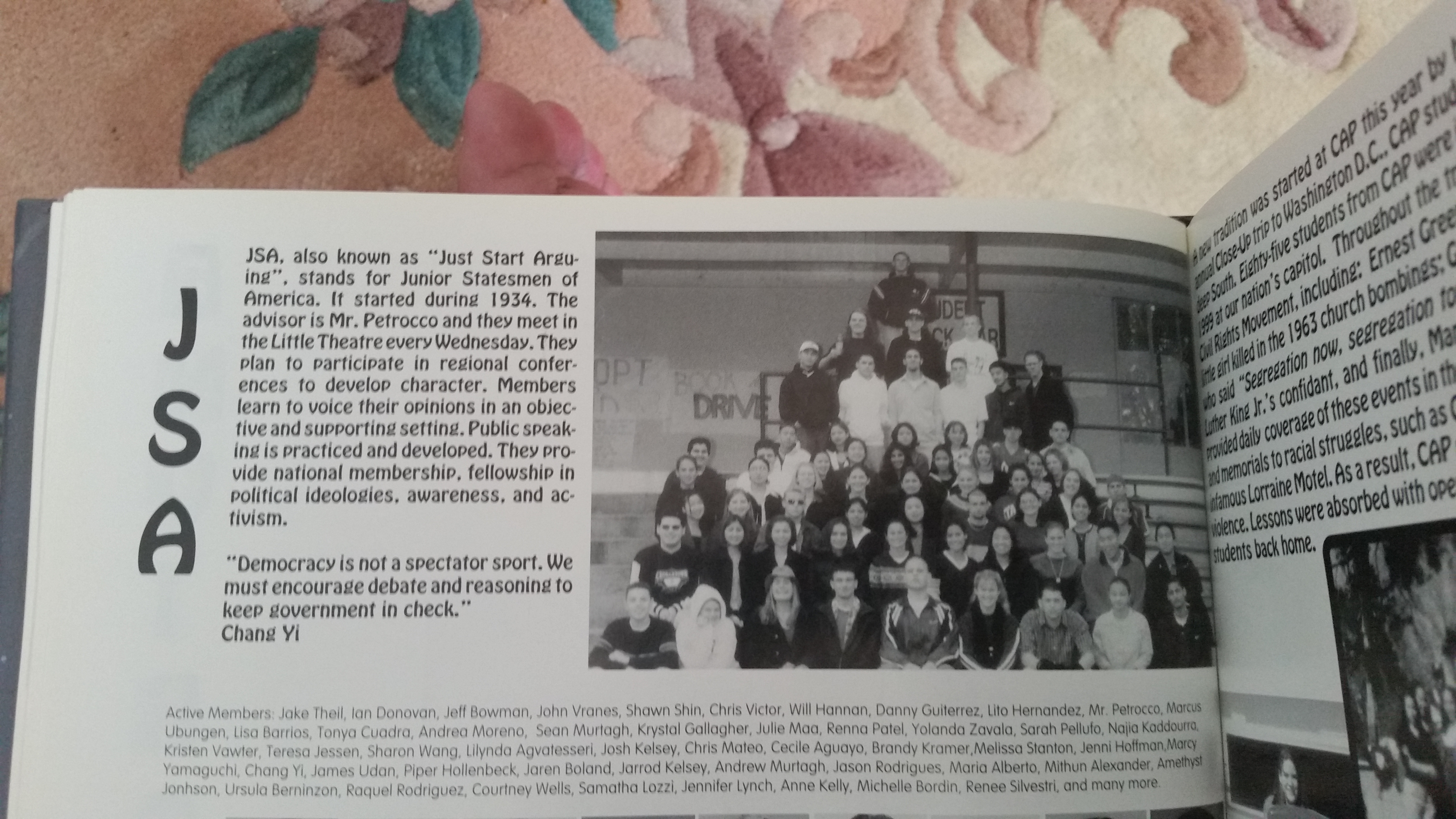 A picture of a section of the 1999 Capuchino High School Yearbook depicting some of the members of the JSA club